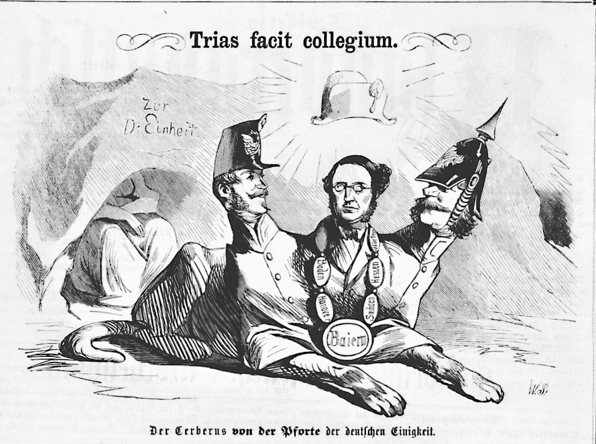 Karikatur, Kladderadatsch